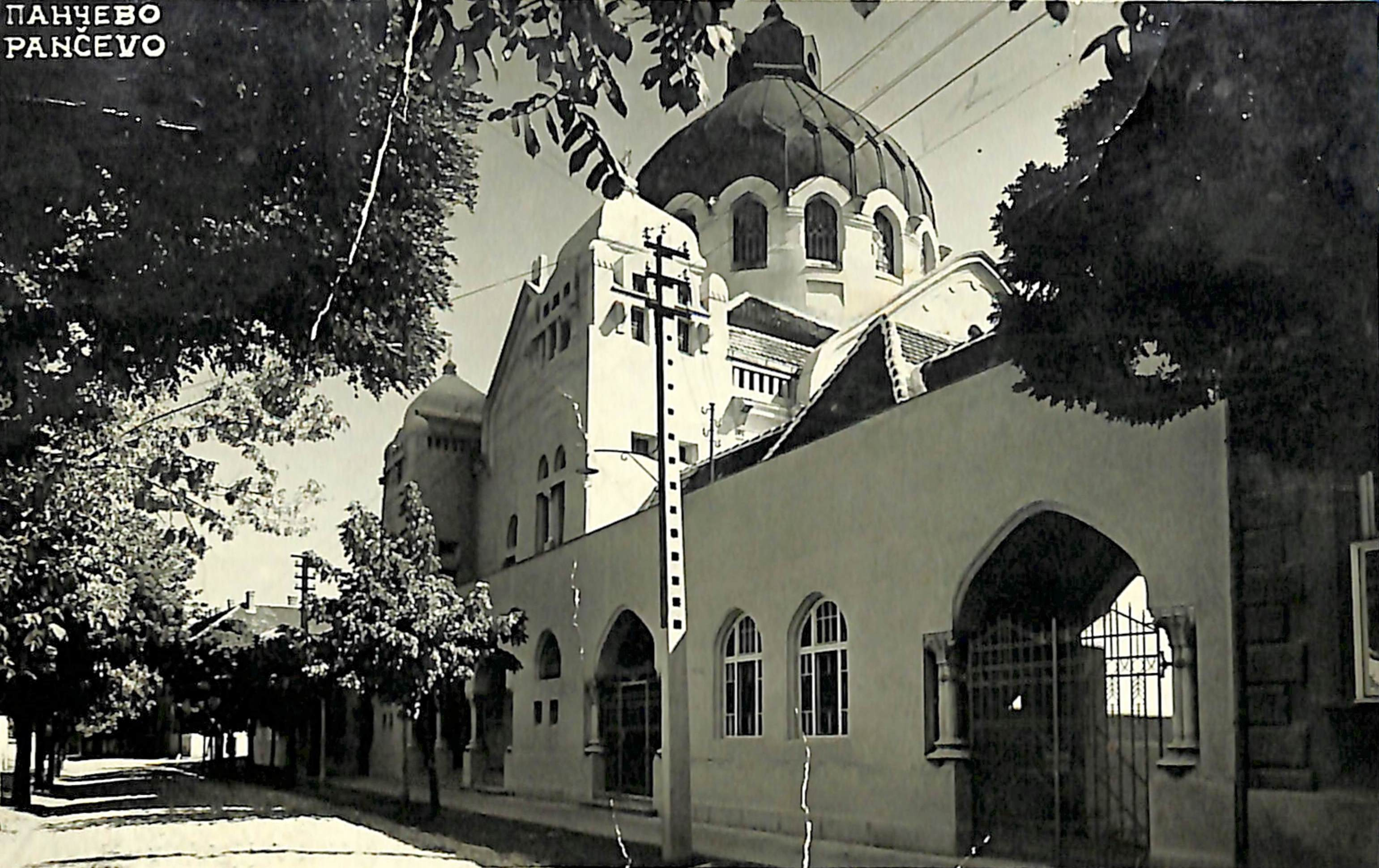 The former synagogue in Pančevo